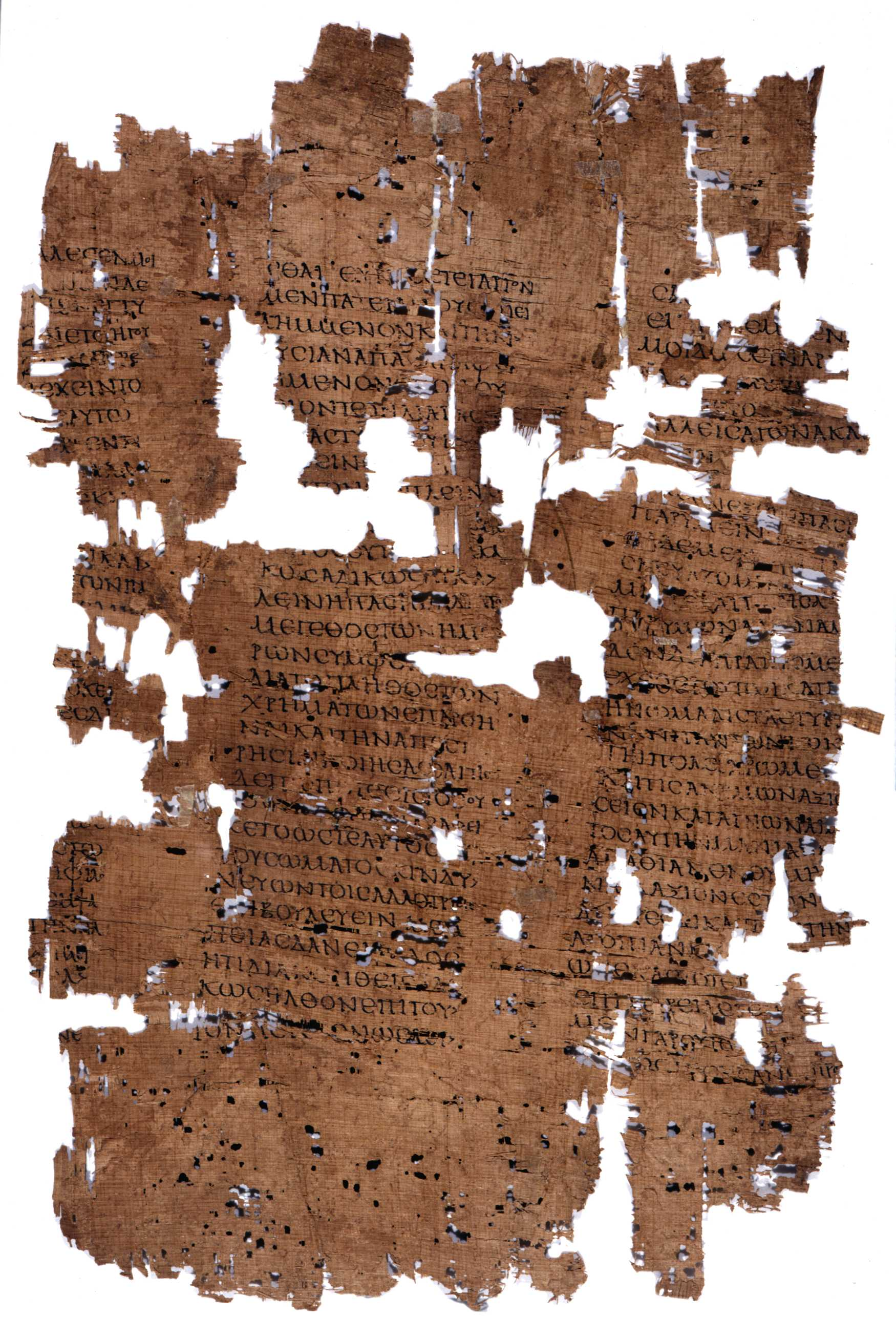 Papyrus Oxyrhynchus 1183 - Princeton University Library, AM 4097 - Isocrates, Trapeziticus 44–48